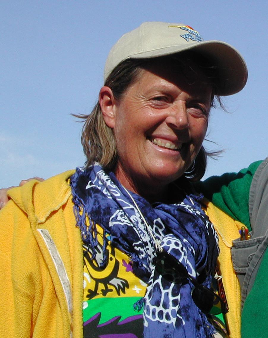 Monique in Egypt